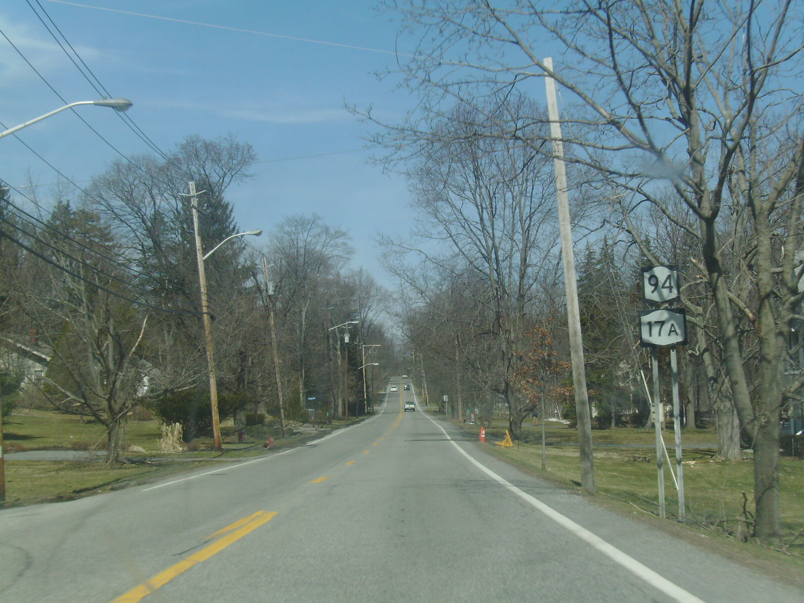 New York State Route 17A and New York State Route 94 heading through Warwick, New York.